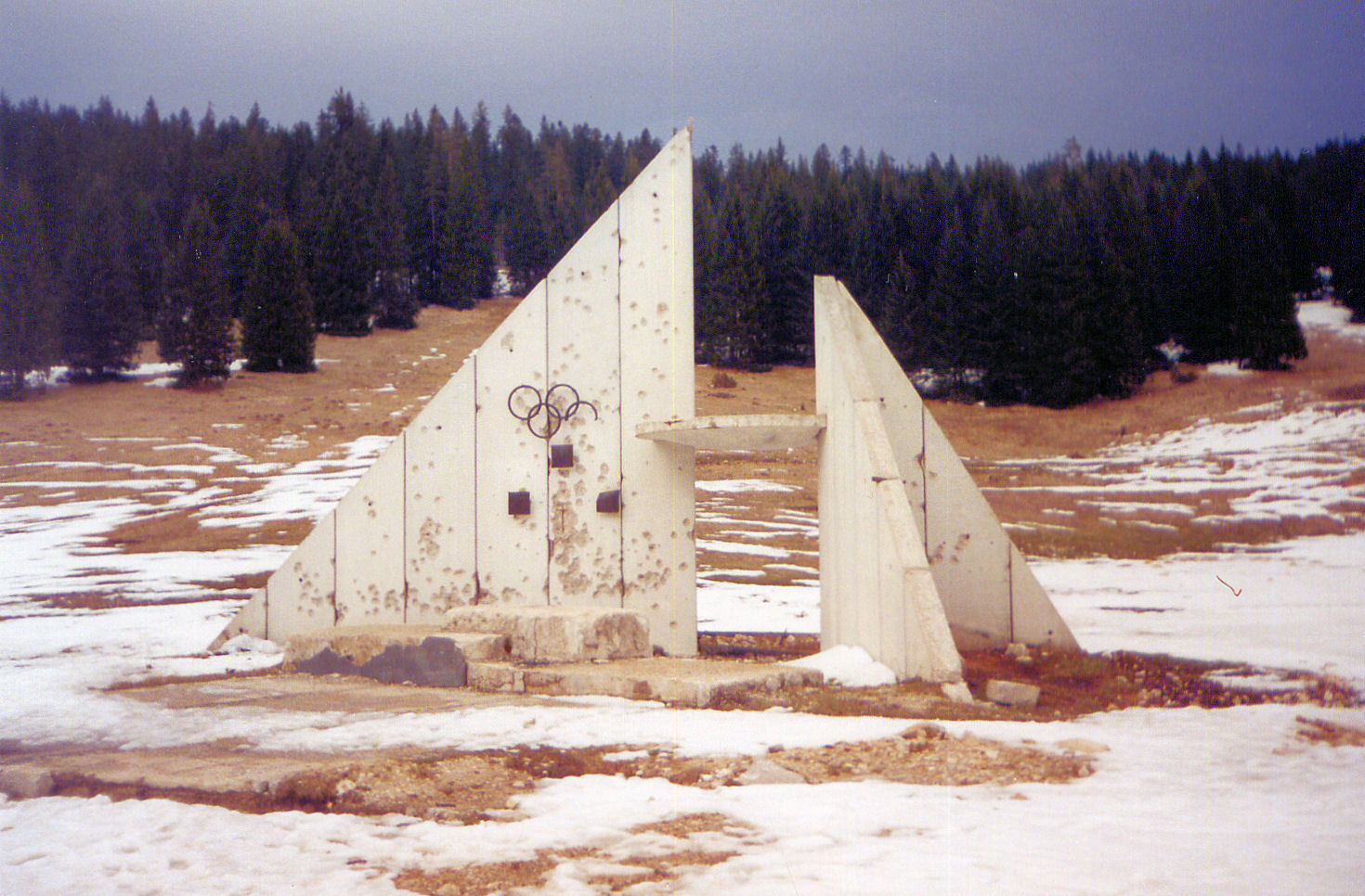 Damaged Olympic Symbol from the 1984 Winter Olympics near Sarajevo